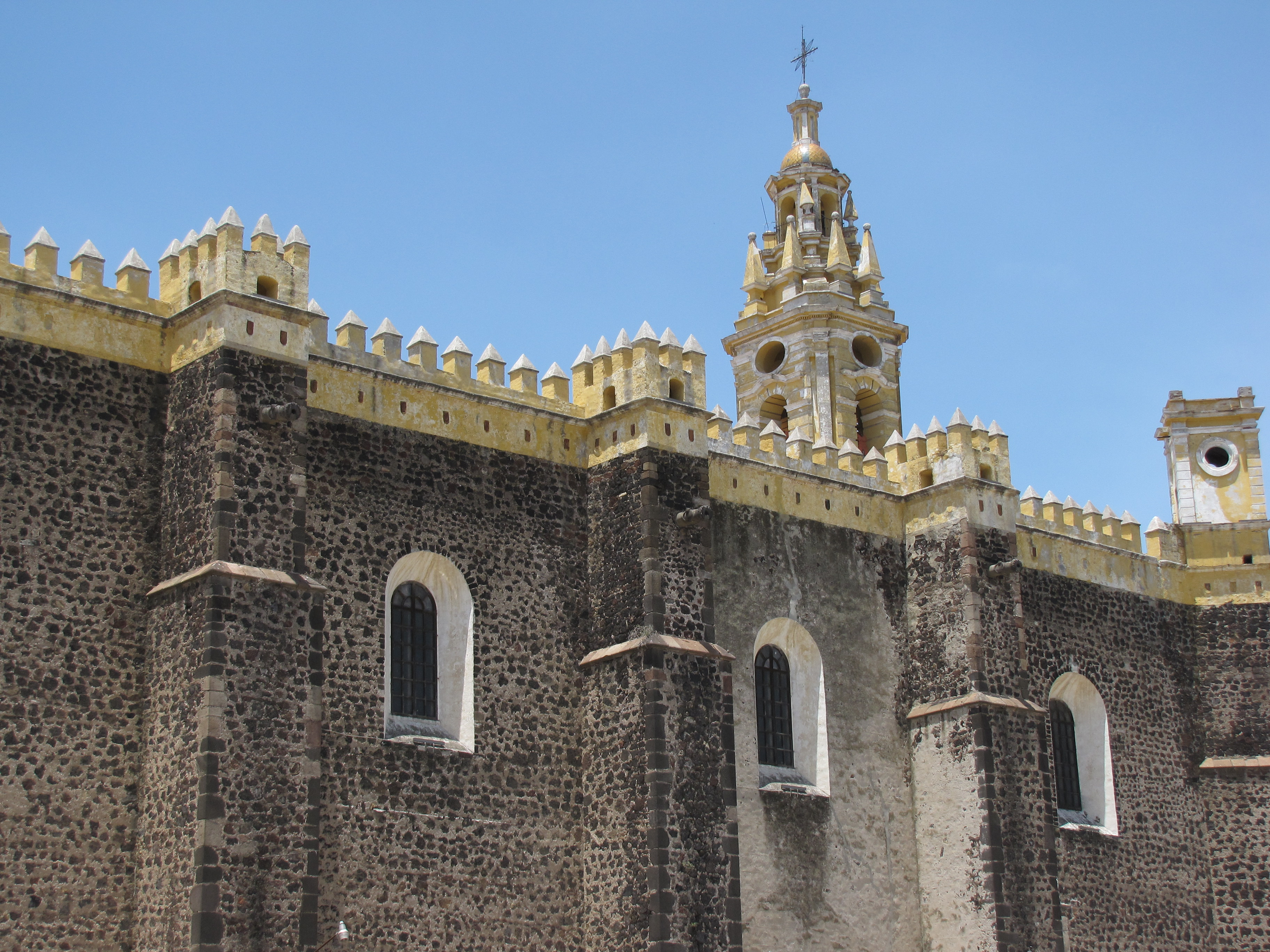 The church of the Convent of San Gabriel, Cholula, Puebla, Mexico